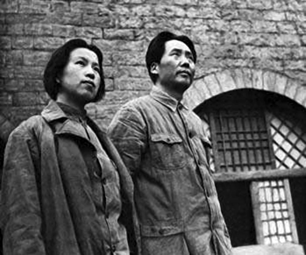 Young Jiang Qing and Mao in Yan'an in 1930s.